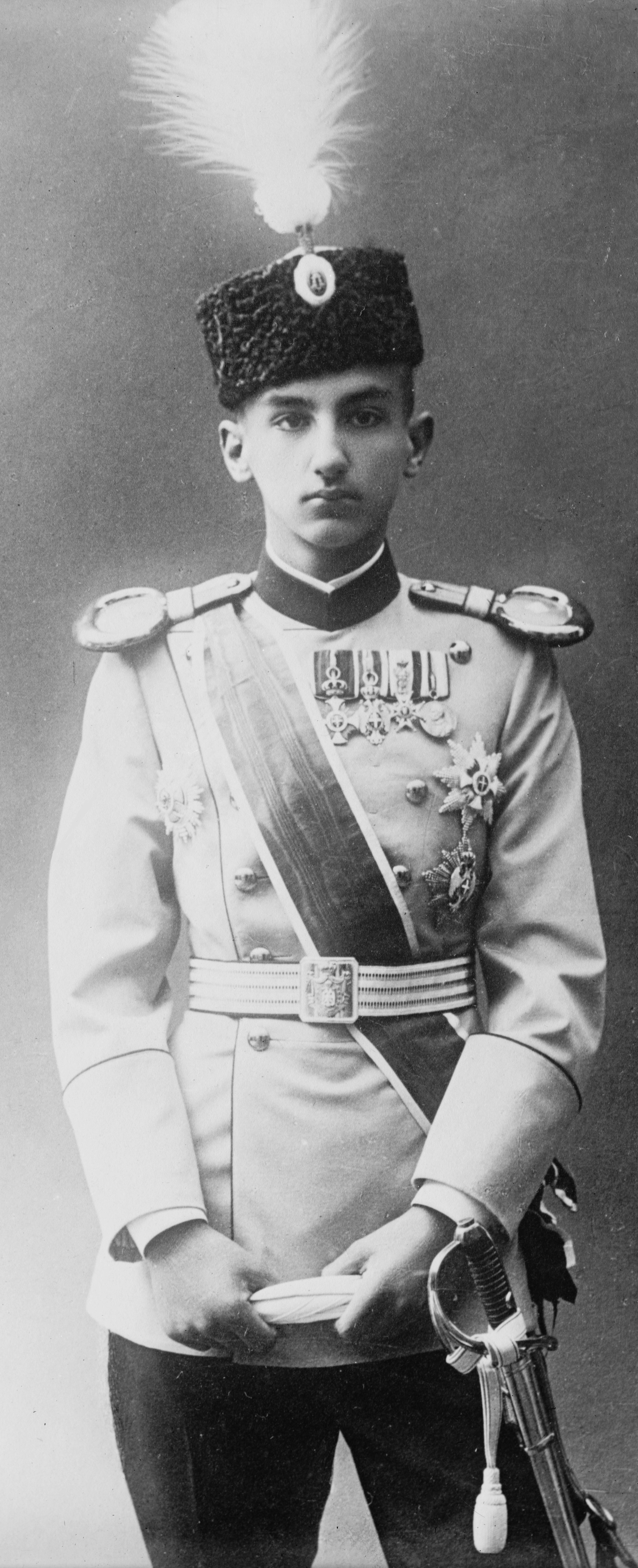 Prince George of Serbia. Hotary Photo, 1909. Source: The Wartenberg Trust postcard collection